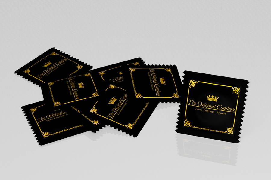 The condom made by The Original condom company : first luxury condom brand of the world : safe sex with elegance